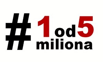 "#1od5miliona" logo